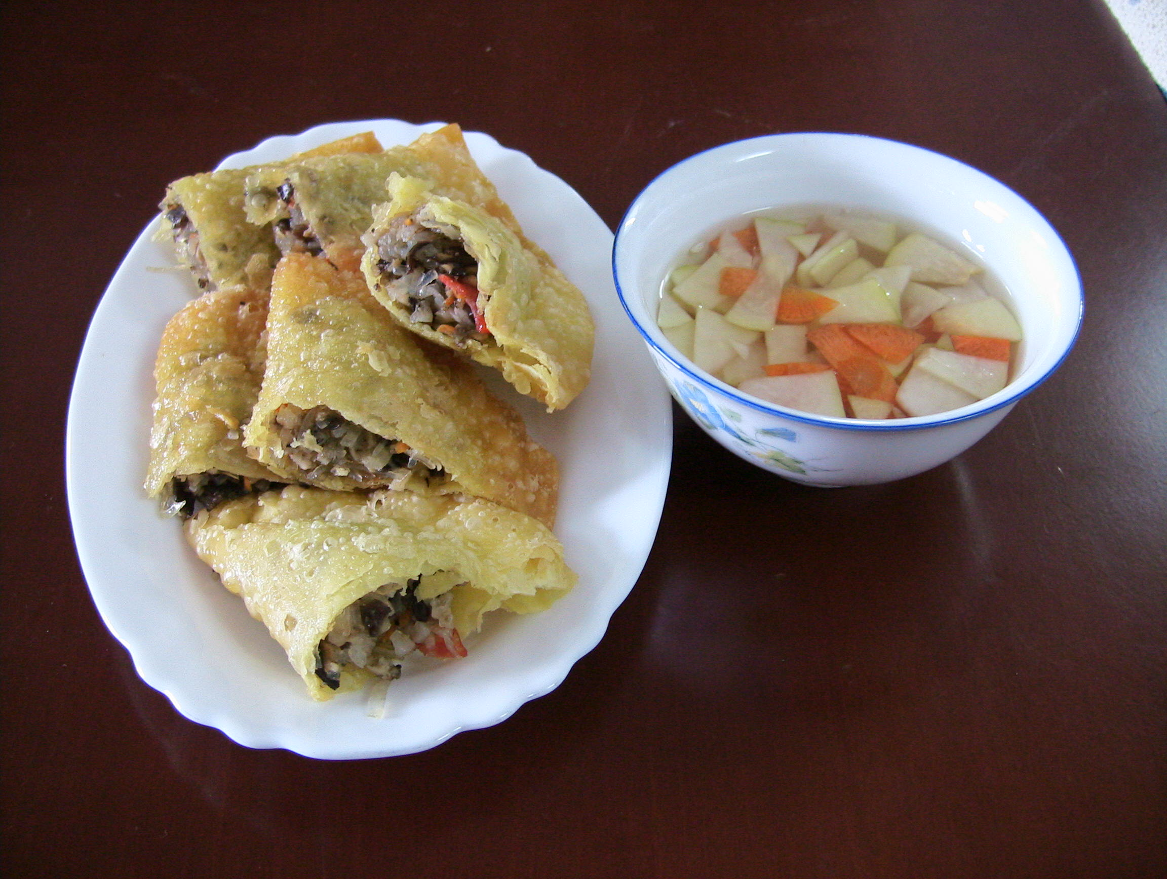 minced pork, glass noodles and mushrooms packaged into a half moon shape within layers of a dense, flaky wrapper